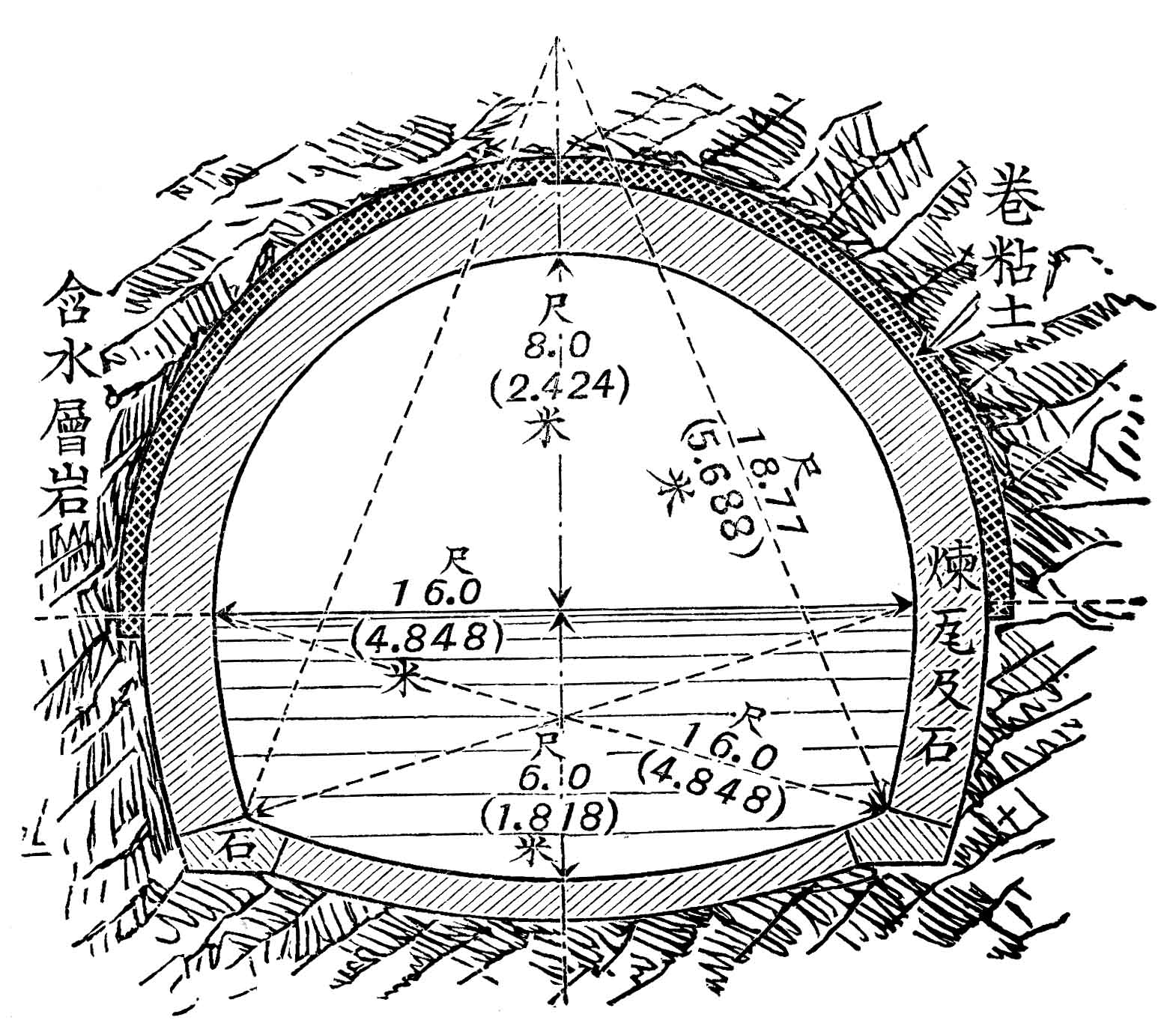 Section of Lake Biwa Canal, Tunnel 1, completed in 1890. 琵琶湖疏水第1トンネル断面